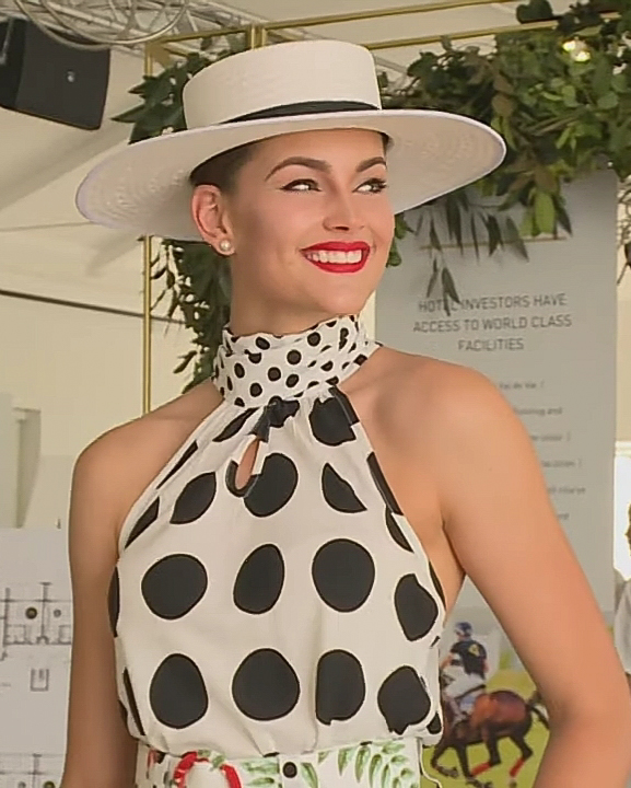 Rolene Strauss at the annual Cintron Pink Polo event, which supports breast cancer survivors and fighters.